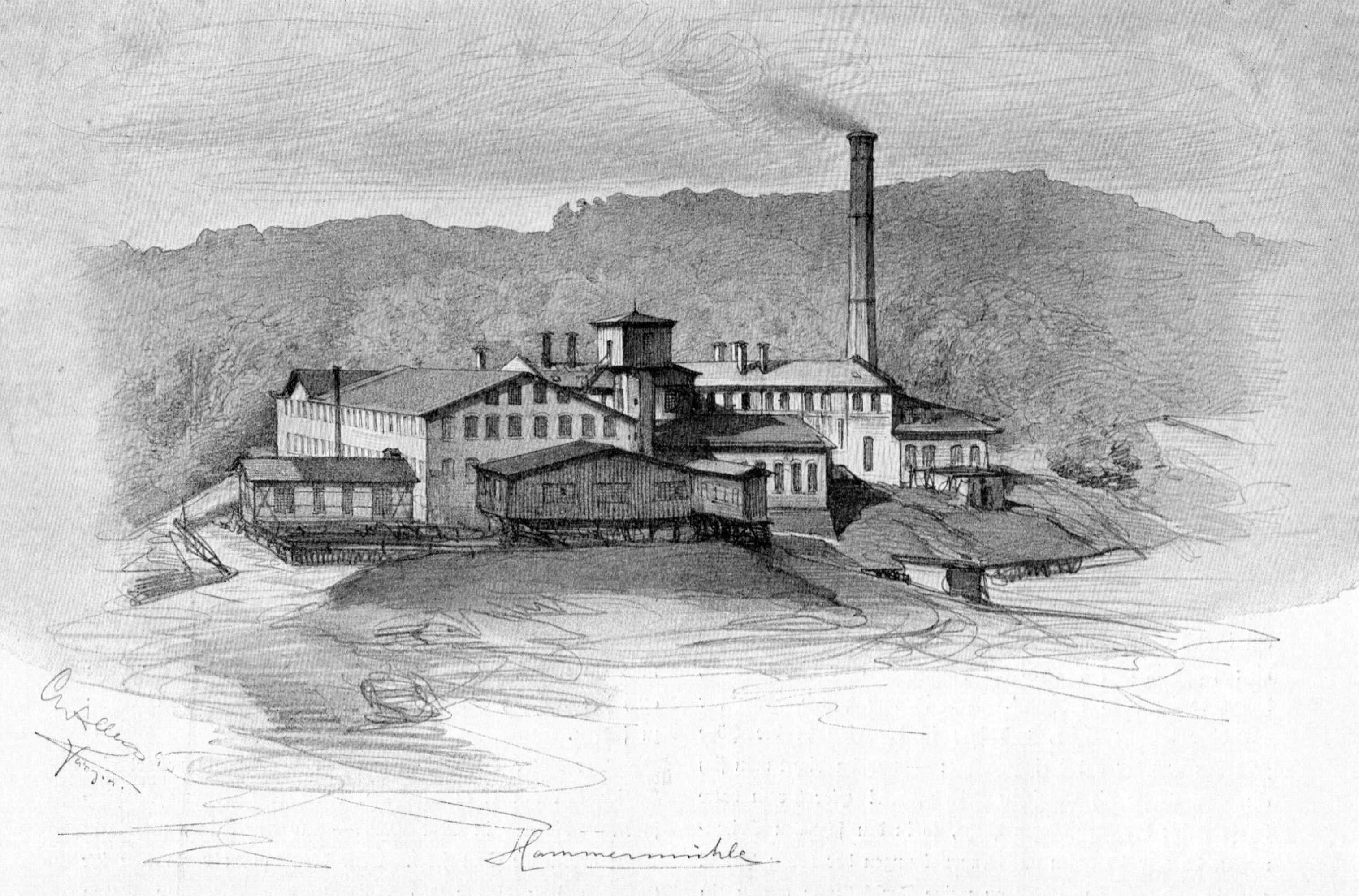 Drawing of a hammermill building in Kępice.